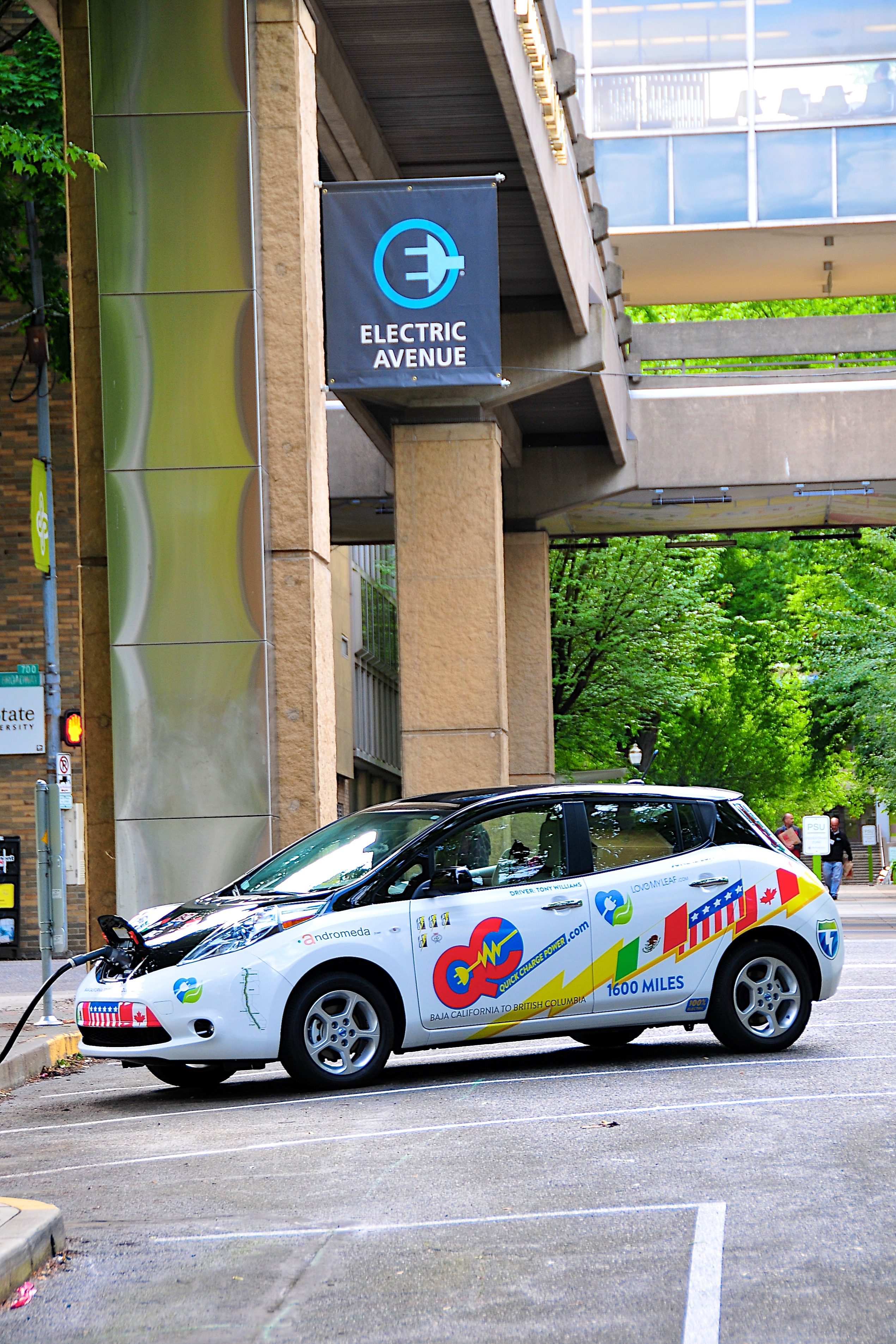 Tony Williams, a pilot and electric vehicle enthusiast, is on a BC2BC journey (Baja, CA to British Columbia) using a Nissan Leaf electric vehcile. Here his car is recharging in Portland's Electric Avenue.